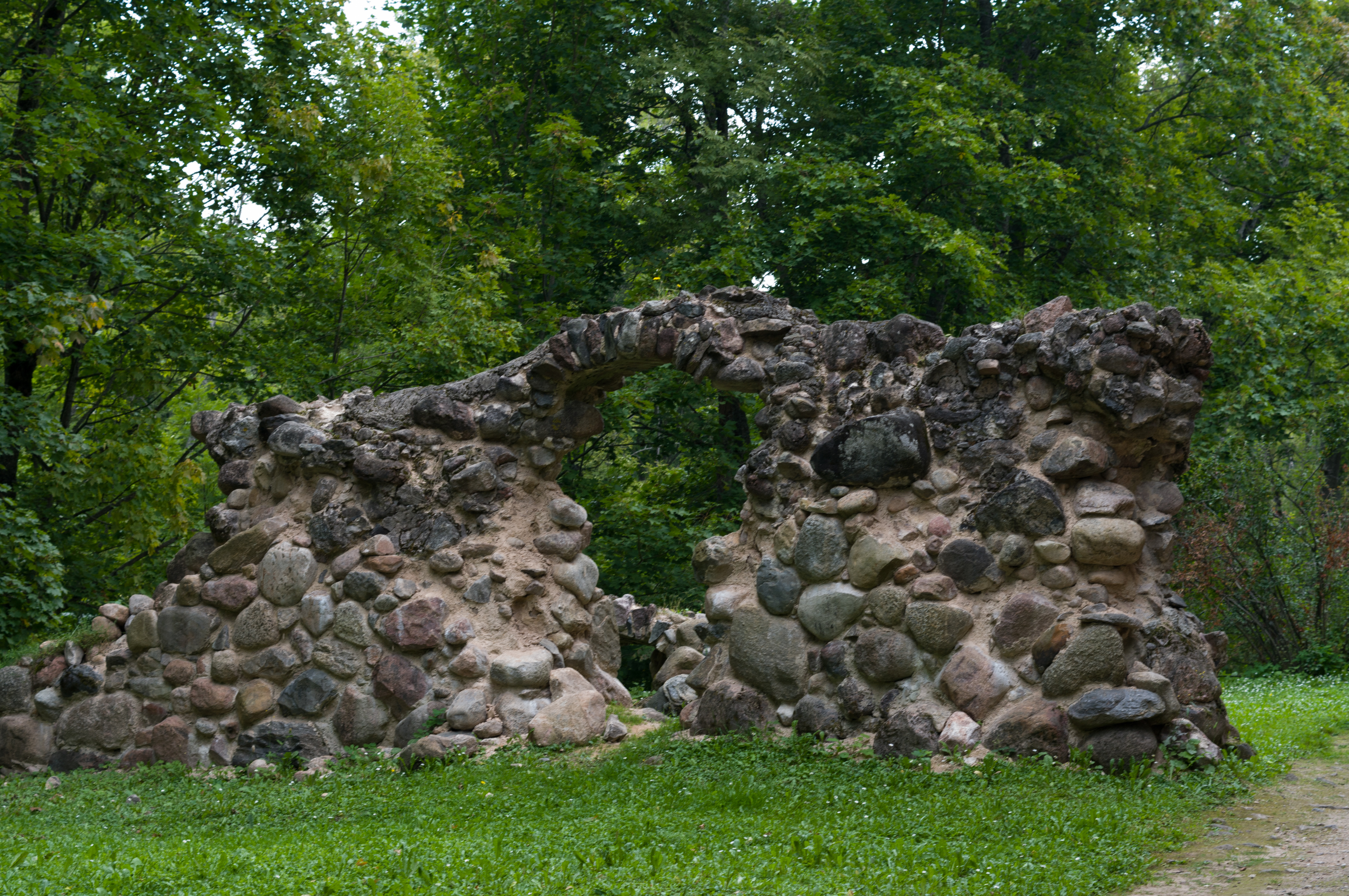 This photo was taken during a Wikiexpedition set up by Wikimedia Eesti. You can see all photographs in category WMEE-LV2013.